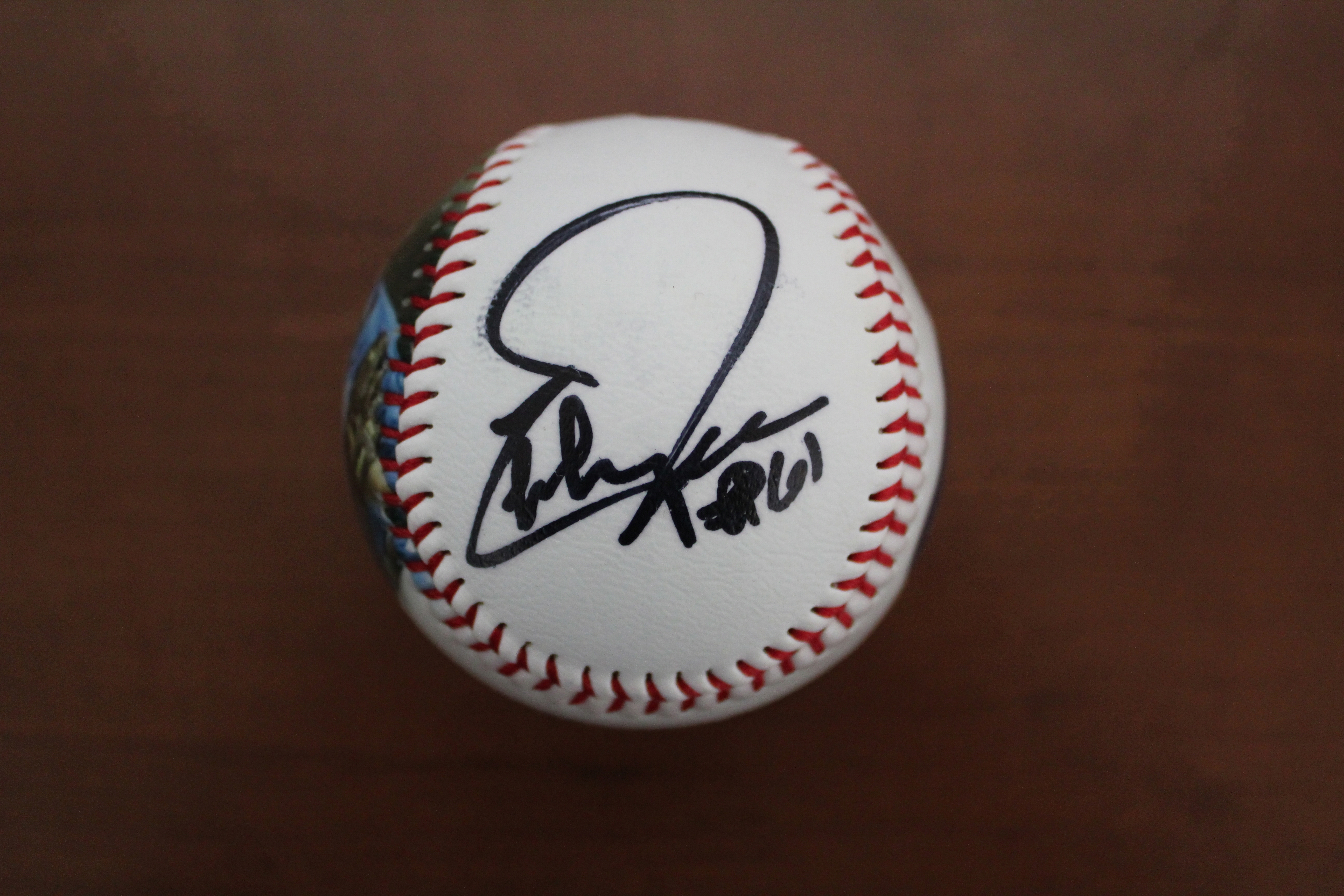 Major League baseballer Chan-Ho Park's Signature